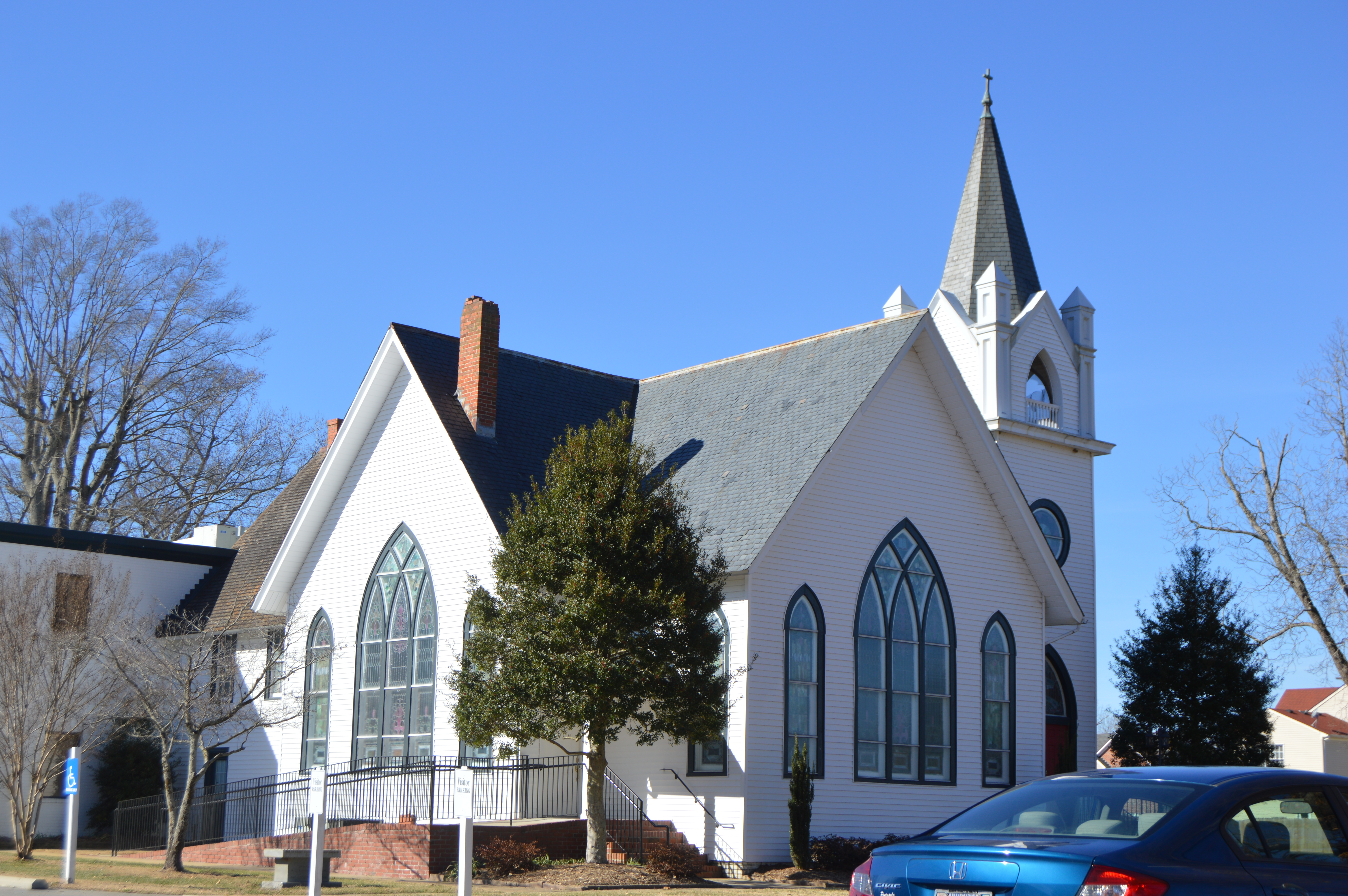 Front of the Beech Grove United Methodist Church, located at 4251 Driver Lane in Suffolk, Virginia, United States. It is part of the Driver Historic District, a historic district that is listed on the National Register of Historic Places.